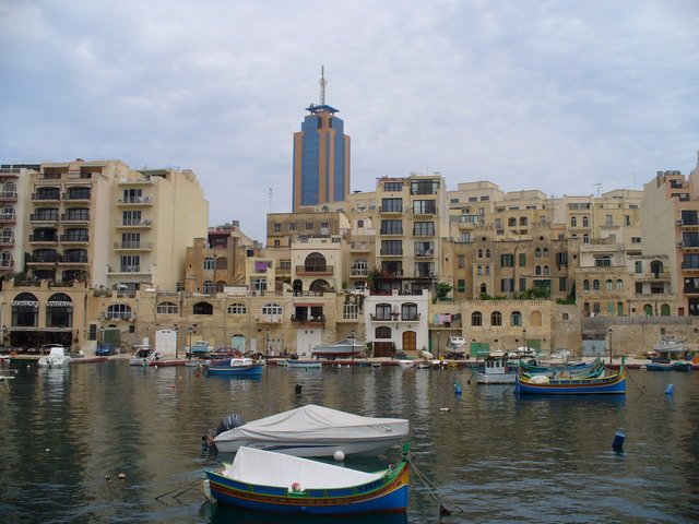 Spinola Bay and the Potomaso Tower in St. Julian's, Malta